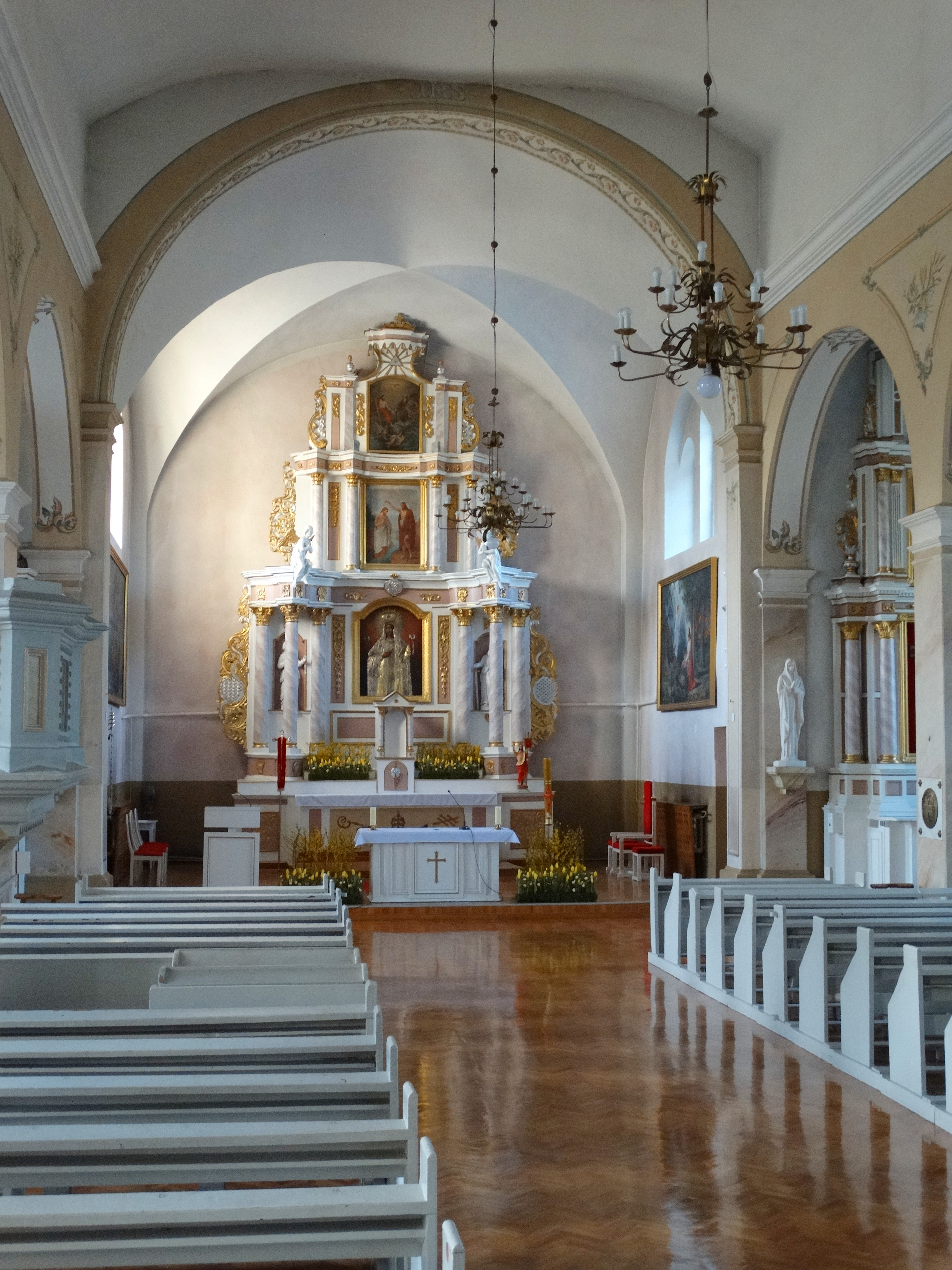 Church of St. John the Baptist, interior, Pakruojis, Lithuania